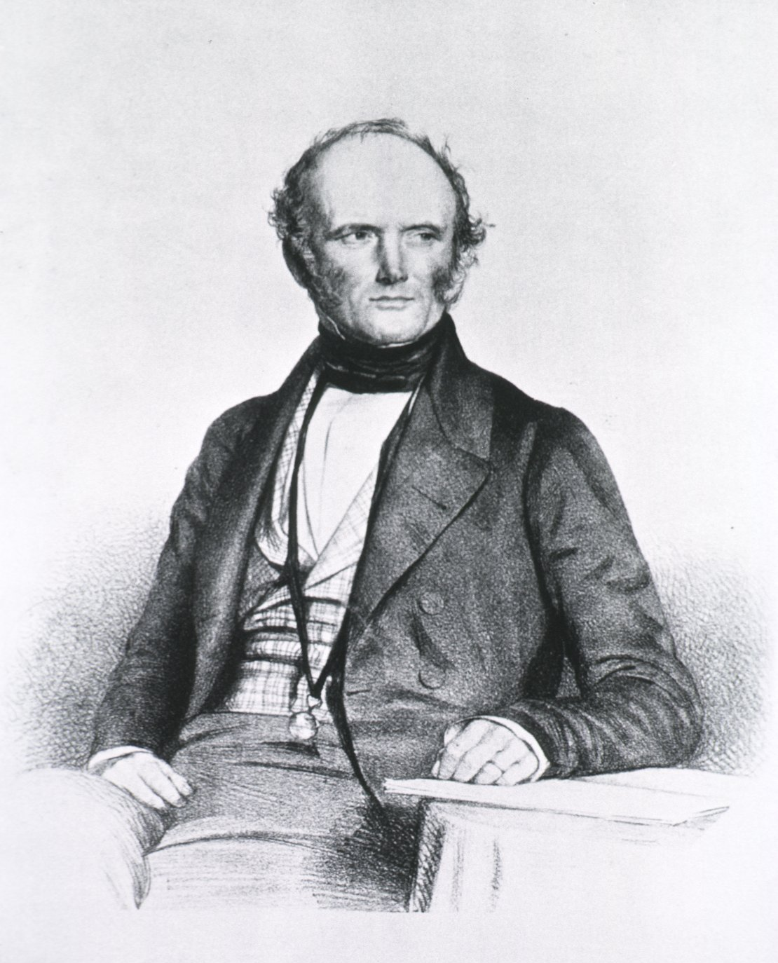 Portrait of Sir Charles Lyell (1797—1875).